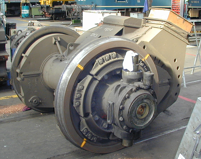 Traction Motor, german class 140.